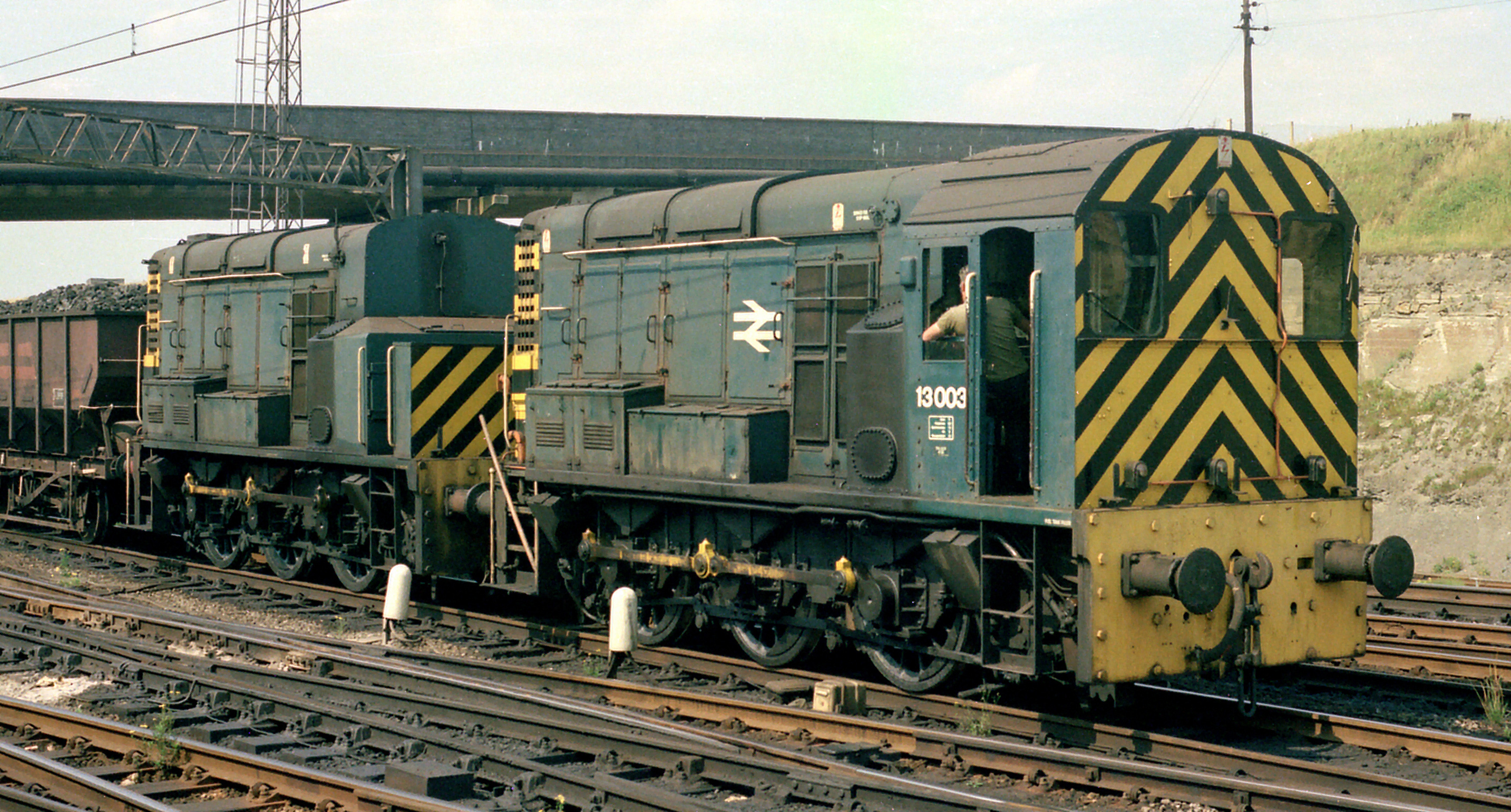 Class 13 no. 13003, permanently coupled Master-Slave locomotives, Tinsley Marshalling Yard, 6/8/74.